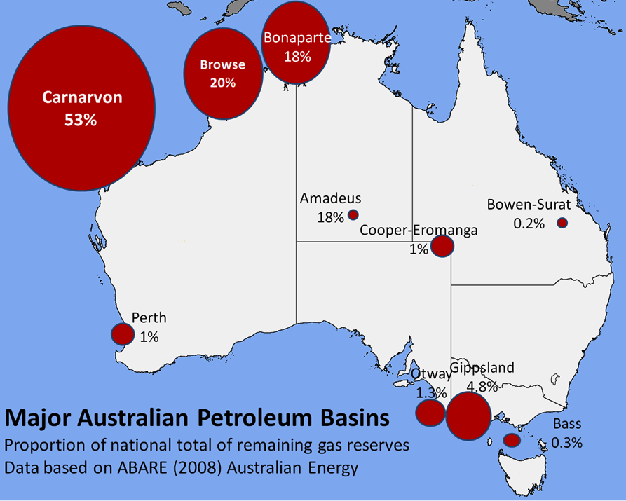 Map of Australia showing remaining reserves of gas in eahc of the major basins - based on data in Energy 2008, by the Australian Bureau of agricultural and Resource Economics (